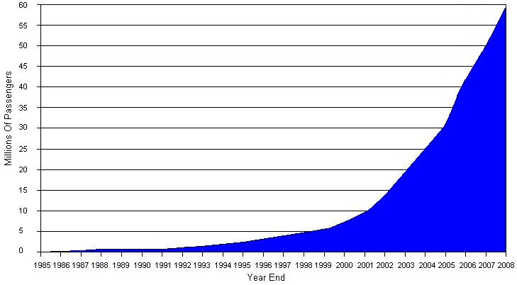 Ryan air passenger numbers update to include 2008